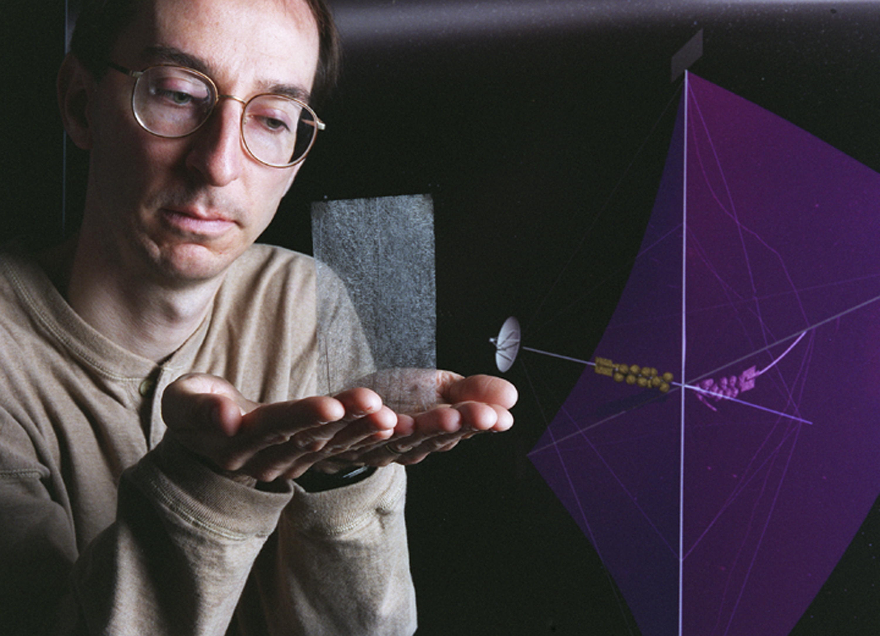 Engineers at Marshall Space Flight Center's (MSFC) Interstellar Propulsion Research department are proposing different solutions to combustion propellants for future space travel. One alternative being tested is the solar sail. The idea is, once deployed, the sail will allow solar winds to propel a spacecraft away from Earth and towards its destination. This would allow a spacecraft to travel indefinitely without the need to refuel during its long journey. Thin reflective sails could be propelled through space by sunlight, microwave beams, or laser beams, just as the wind pushes sailboats on Earth. The sail will be the largest spacecraft ever built, spanning 440 yards, twice the diameter of the Louisiana Super Dome. Construction materials are being tested in a simulated space environment, where they are exposed to harsh conditions to test their performance and durability in extremely hot and cold temperatures. A leading candidate for the construction material is a carbon fiber material whose density is less than 1/10 ounce per square yard, the equivalent of flattening one raisin to the point that it covers a square yard. In space, the material would unfurl like a fan when it is deployed from an expendable rocket. This photo shows Les Johnson, manager of MSFC's Interstellar Propulsion Research Center holding the rigid, lightweight carbon fiber. An artist's concept of the sail is on the right. Mankind's first venture outside of our solar system is proposed for launch in a 2010 timeframe. An interstellar probe, powered by the fastest spacecraft ever flown, will zoom toward the stars at 58 miles per second. It will cover the distance from New York to Los Angeles in less than a minute and will travel over 23 billion miles beyond the edge of the solar system.